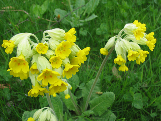 Cowslips.